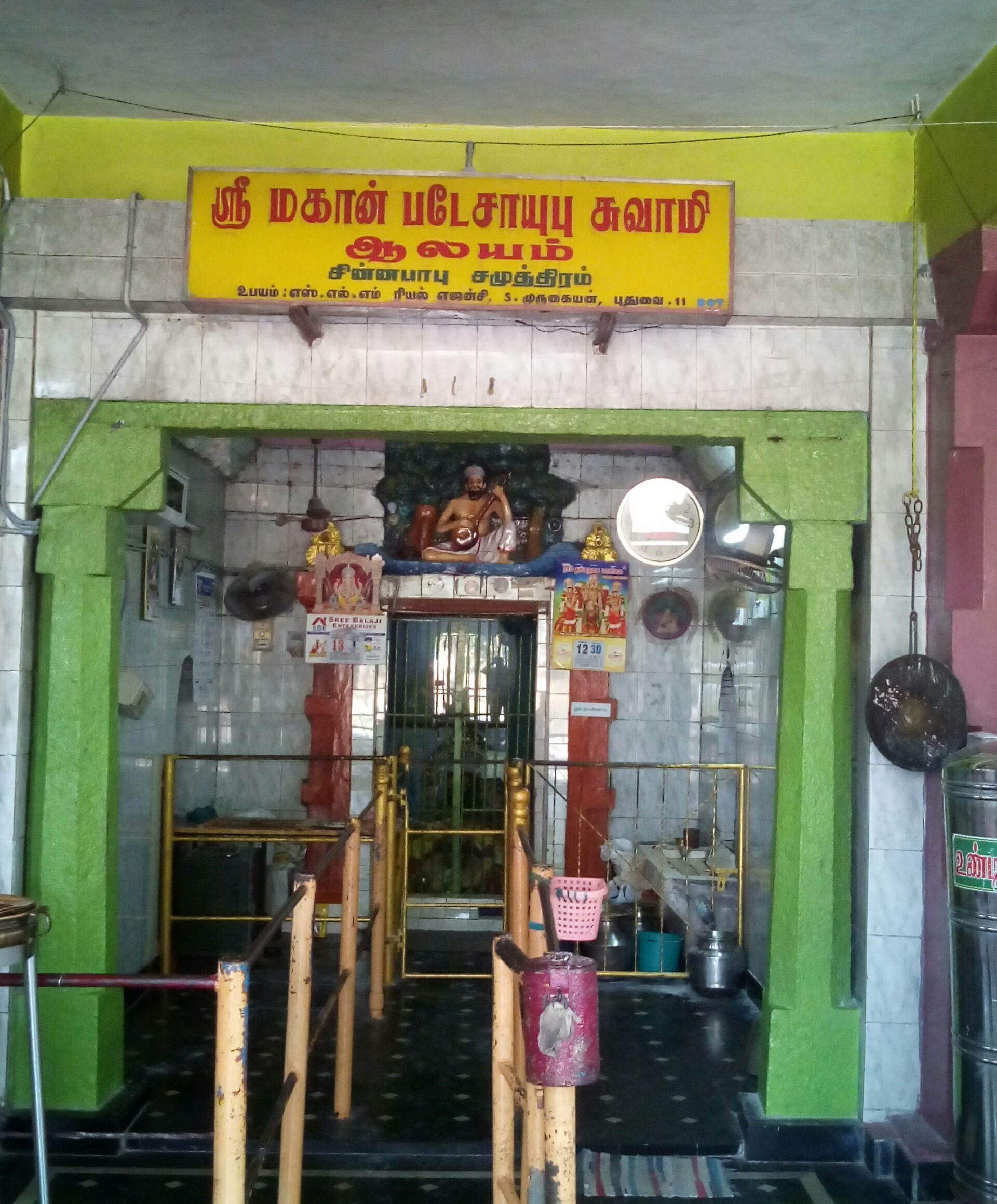 Mahan Sri Bade Sahib Siddar Temple, Chinnababu Samuthiram.